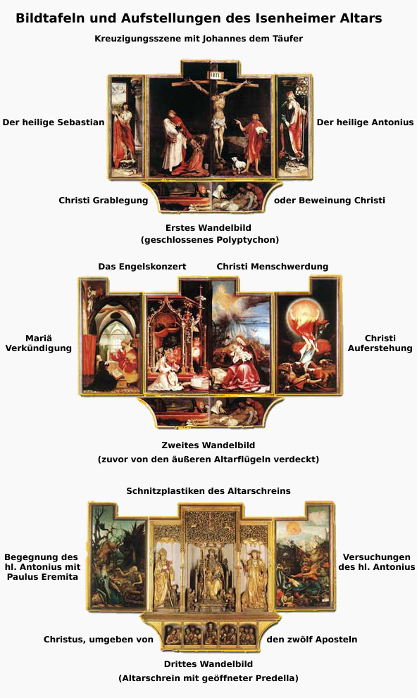 Picture panels and configurations of the Isenheim altarpiece